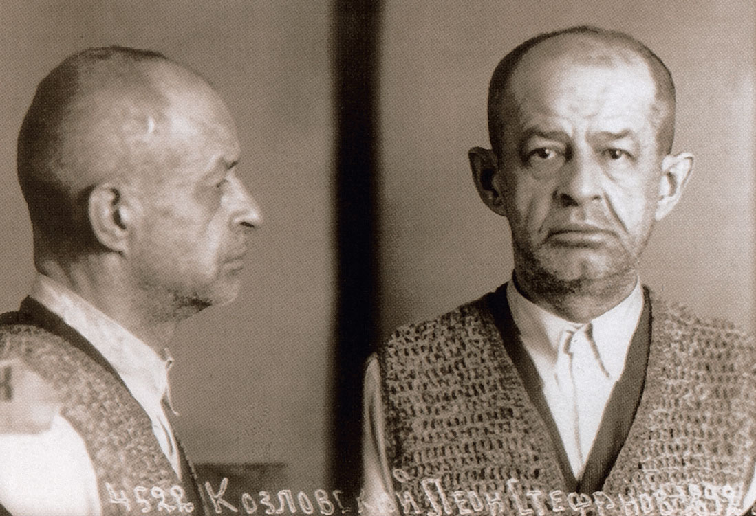 Picture from the arrest of former Polish prime minister Leon Kozłowski in Autumn 1939 by the NKVD (the picture was located in KGB archives).